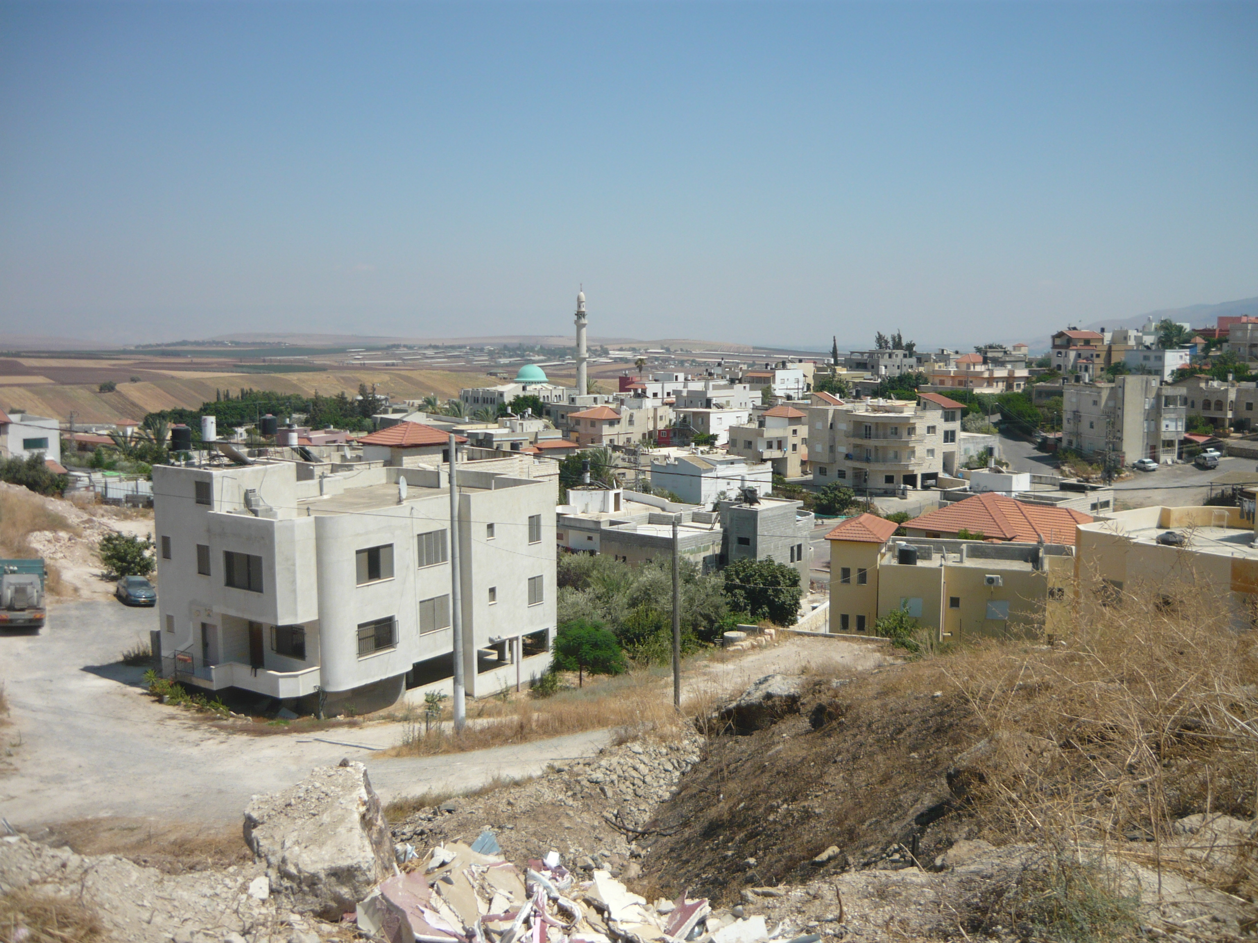 naoura מראה בנאעורה